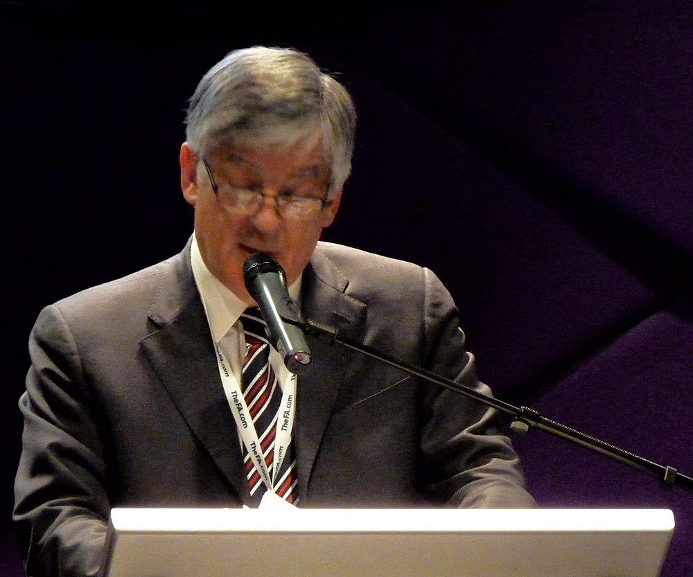 ex-manchester city chairman & current football association chairman, David Bernstein (2011) open source/archive project free to use (typical panny low light noise problems)